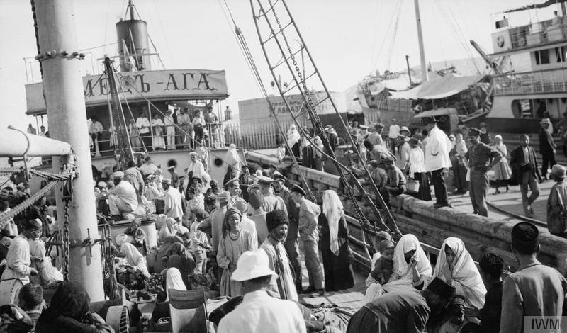 Refugees sailing from Baku